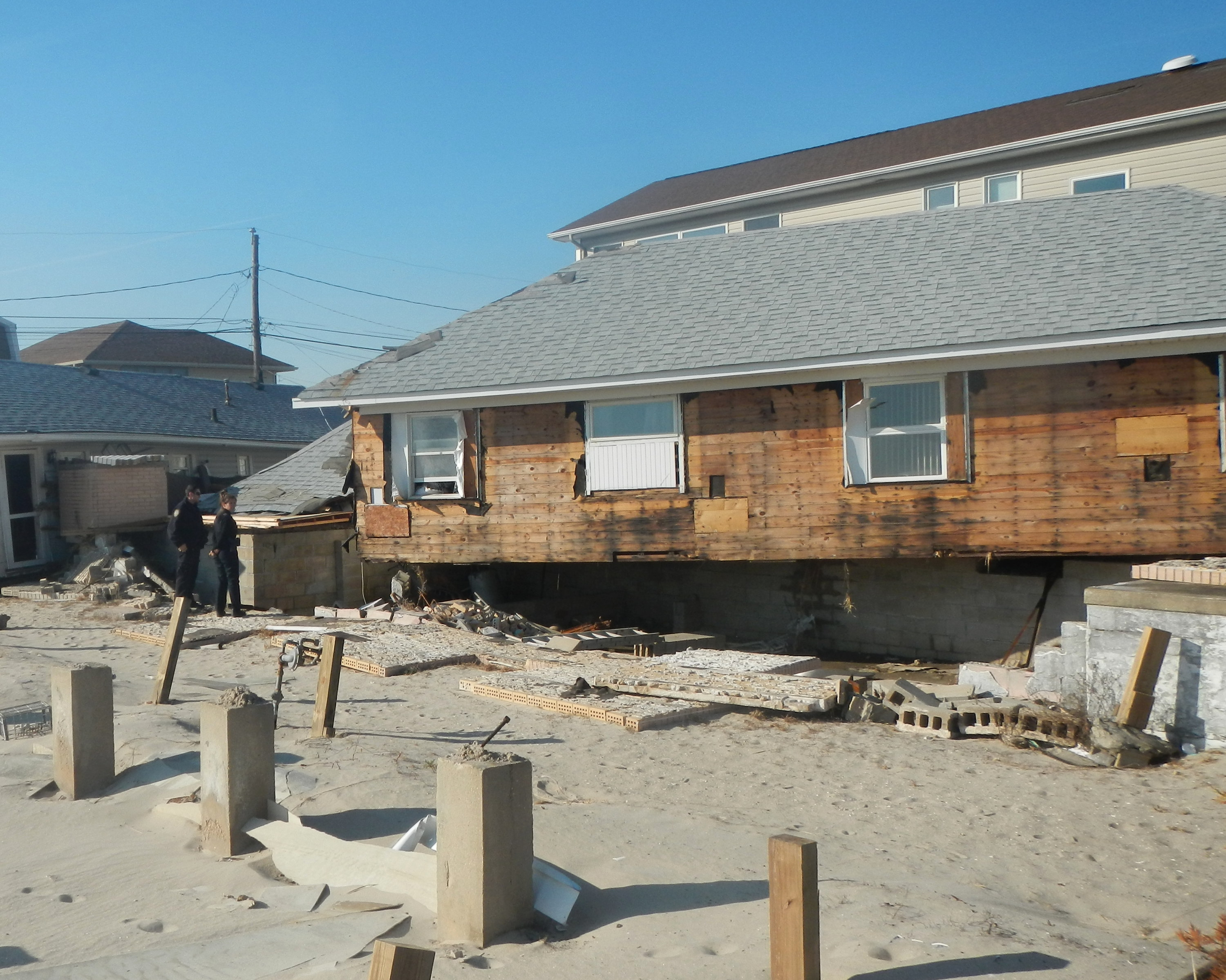 Looking west on a sunny midday as police inspect a house pushed off its foundation on Beach 217the Street.